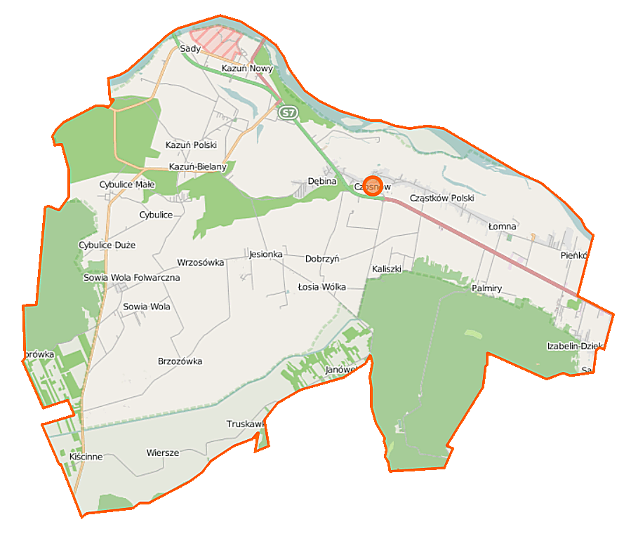 Map of Gmina Czosnów, Poland This map of Czosnów (gmina) was created from OpenStreetMap project data, collected by the community. This map may be incomplete, and may contain errors. Don't rely solely on it for navigation. Border coordinates52.435120.5884←↕→20.835652.3070